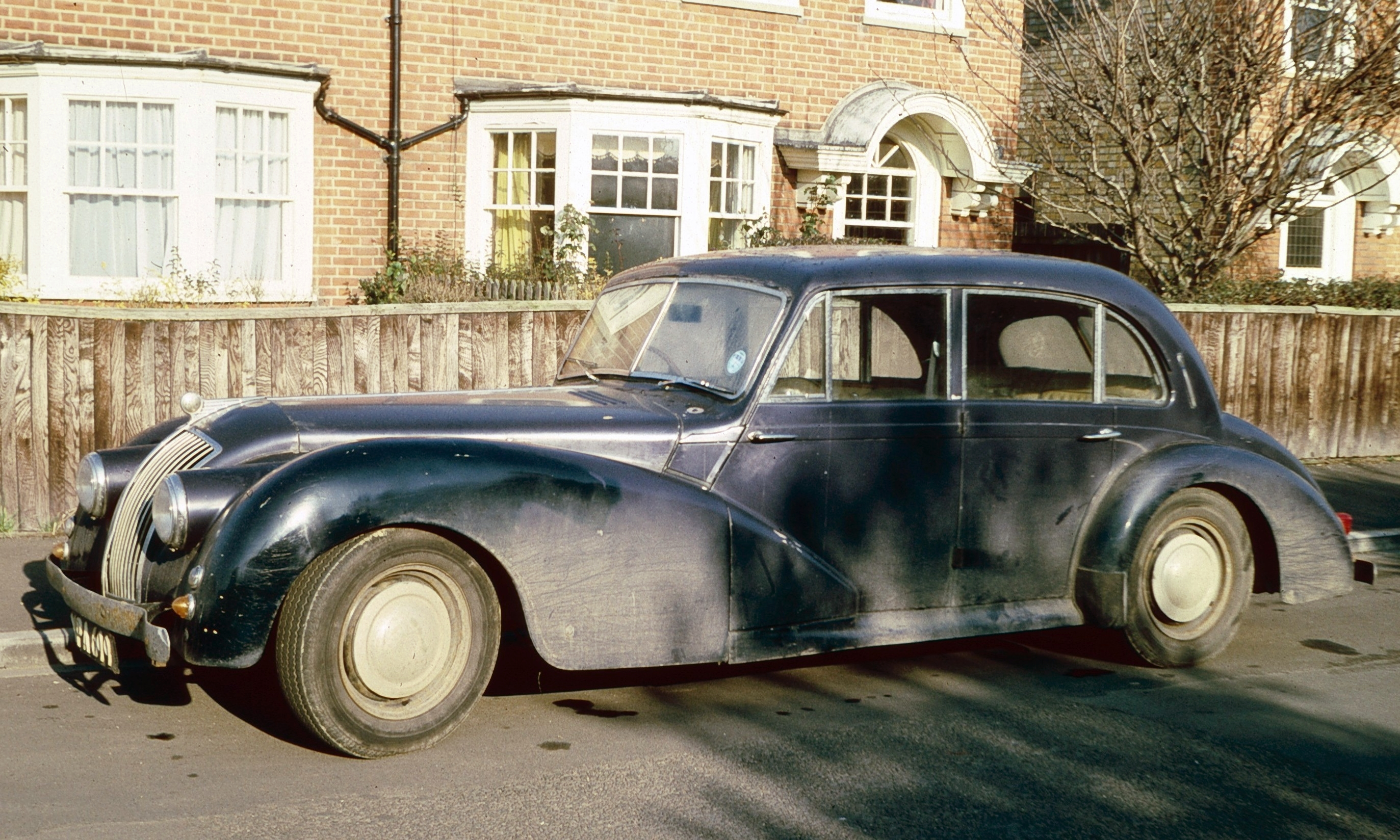 AC 2 Litre 4 door 1950s photographed in UK